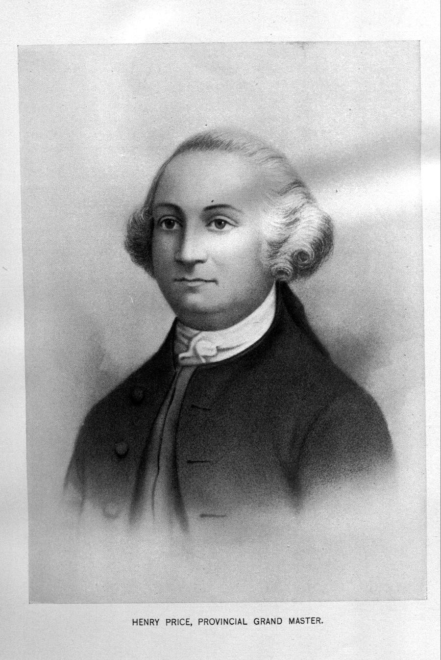 Provincial Grand Master of North America 1734